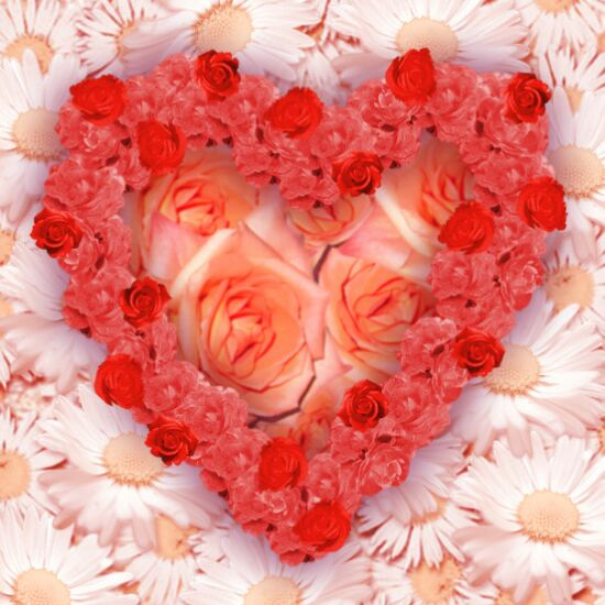 Flowery heart thing